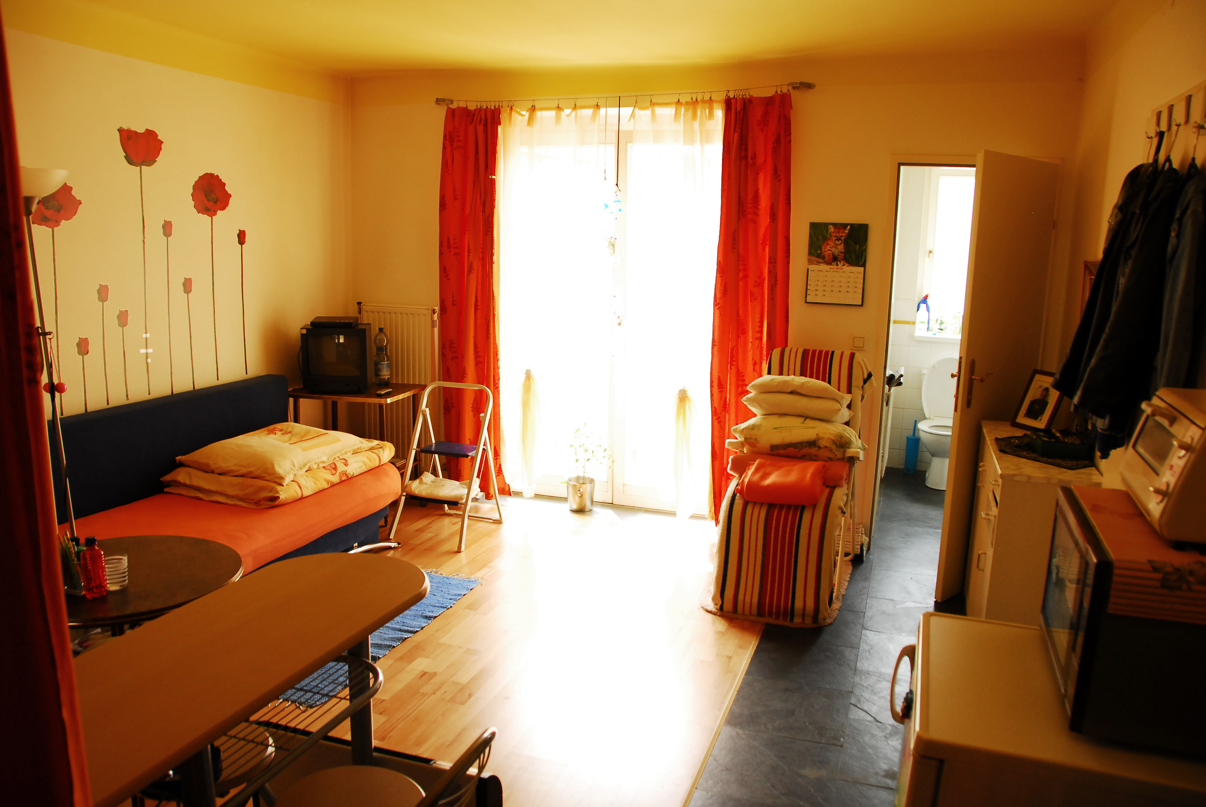 Room D69 of Lighthouse Wien, a shelter for formerly homeless drug addicts